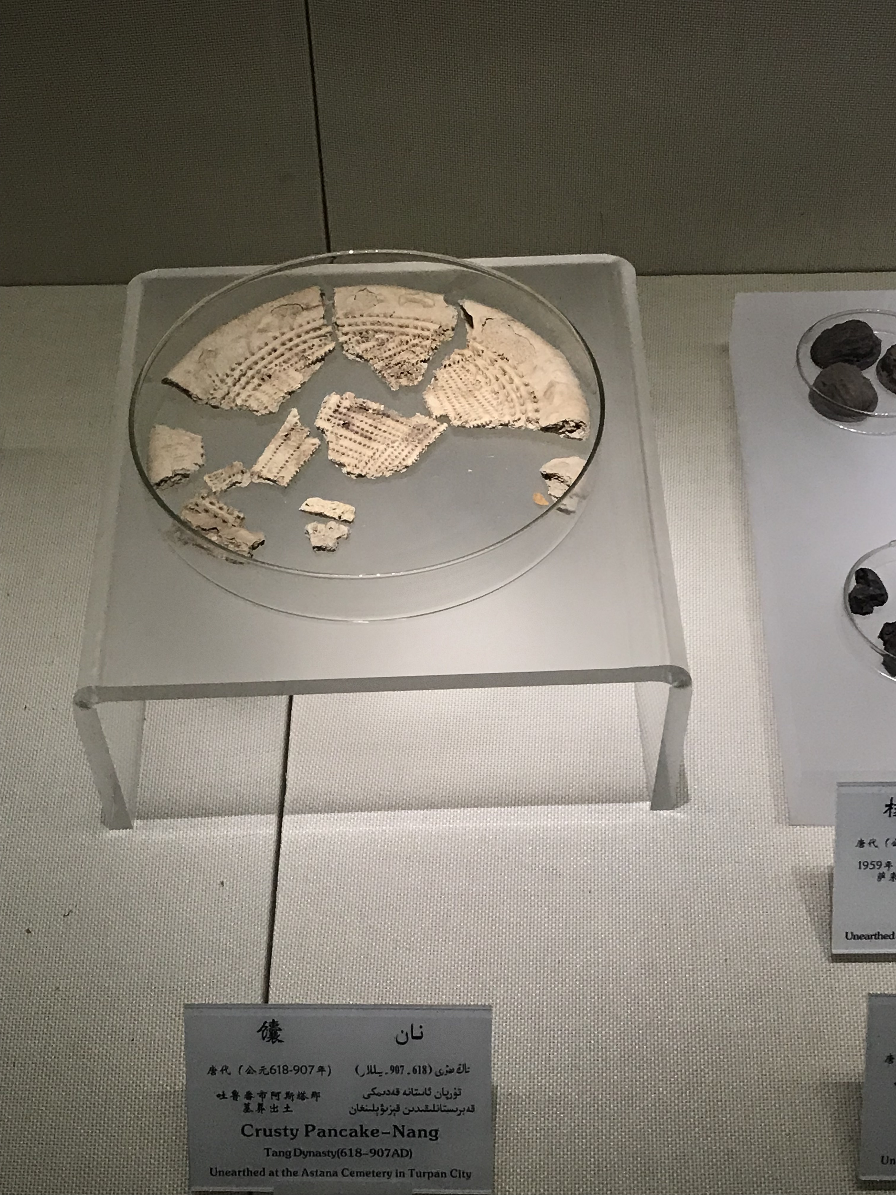 A pancake that last more than 1000 years. Ancient Pancake (Nang, Naan) unearthed from Astana Cemetery, Turpan, China